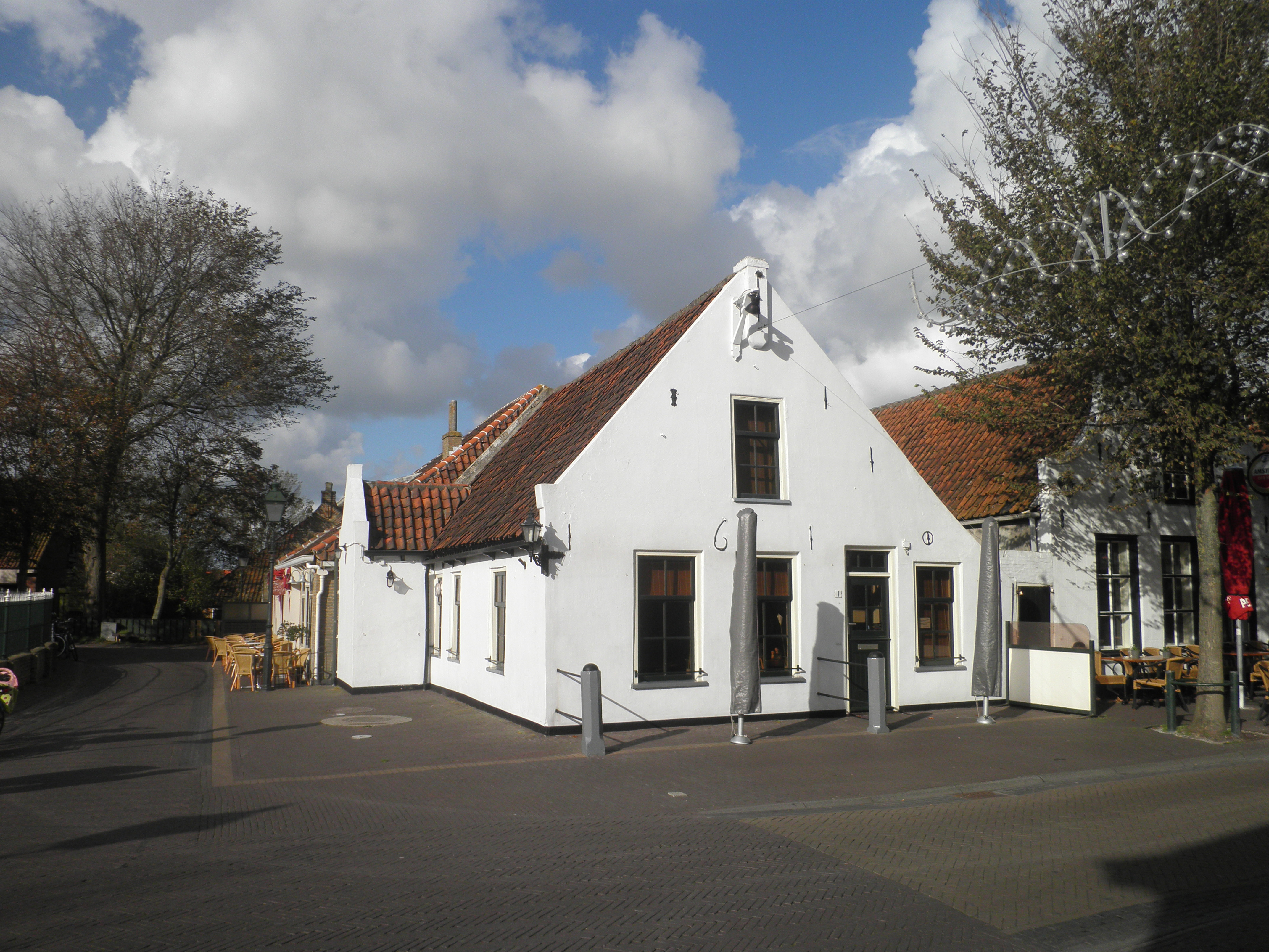 Het Witte Huus (The White House), small building with gable roof at Oosterburen 1 in Midsland on the island of Terschelling in the Netherlands. White plastered facade with top pilaster, wall anchors dating 1620 and six-paneled windows. Nationally listede heritage.